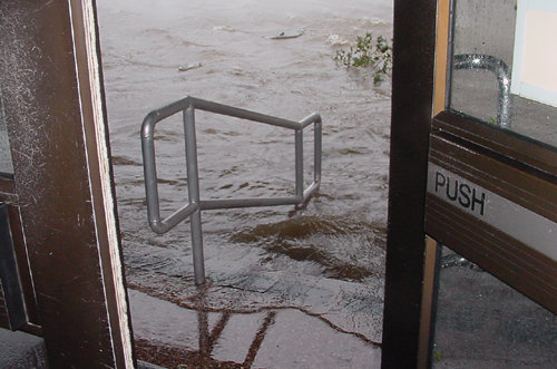 Floodwaters from Hurricane Katrina reached the steps of the John A. Campbell U.S. Courthouse in Mobile, Alabama. In the Southern District of Alabama, flood waters from Mobile Bay reached all the way to the front steps of the John A. Campbell U.S. Courthouse in Mobile, and GSA reported about two feet of seawater in the basement. Power was restored to both the district and bankruptcy courts within a few days. While the court was back in operation, DCN access from Sprint was down for a full three weeks, and it took a month to restore long distance service.